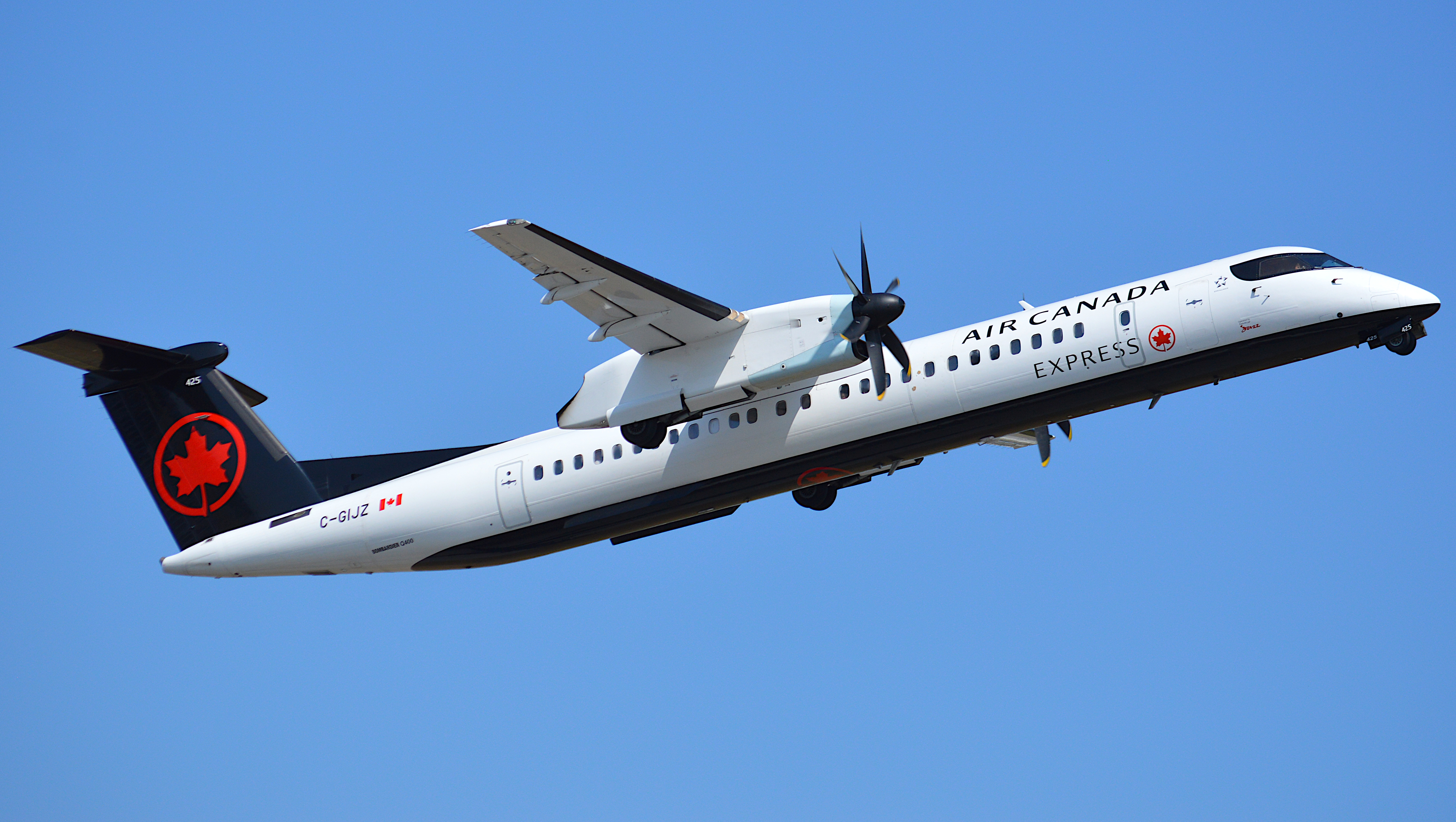 Air Canada Express (Jazz) Dash 8-Q400 C-GIJZ departing from runway 09, Victoria International Airport, August 3, 2019.